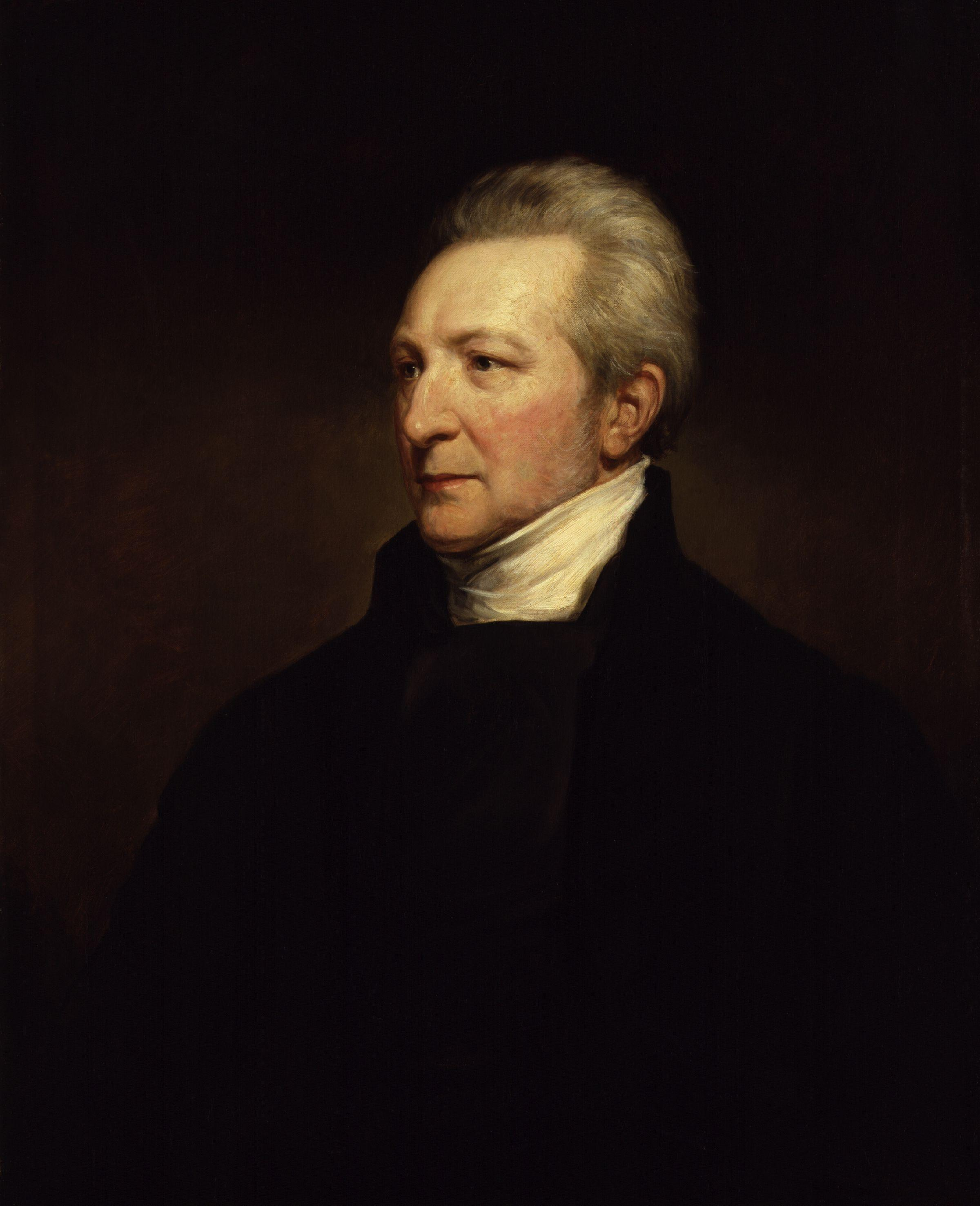 given to the National Portrait Gallery, London in 1956.